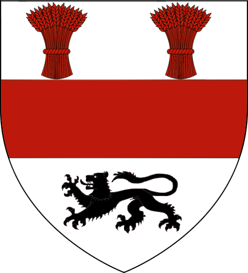 Coat of arms of the Kinsella.